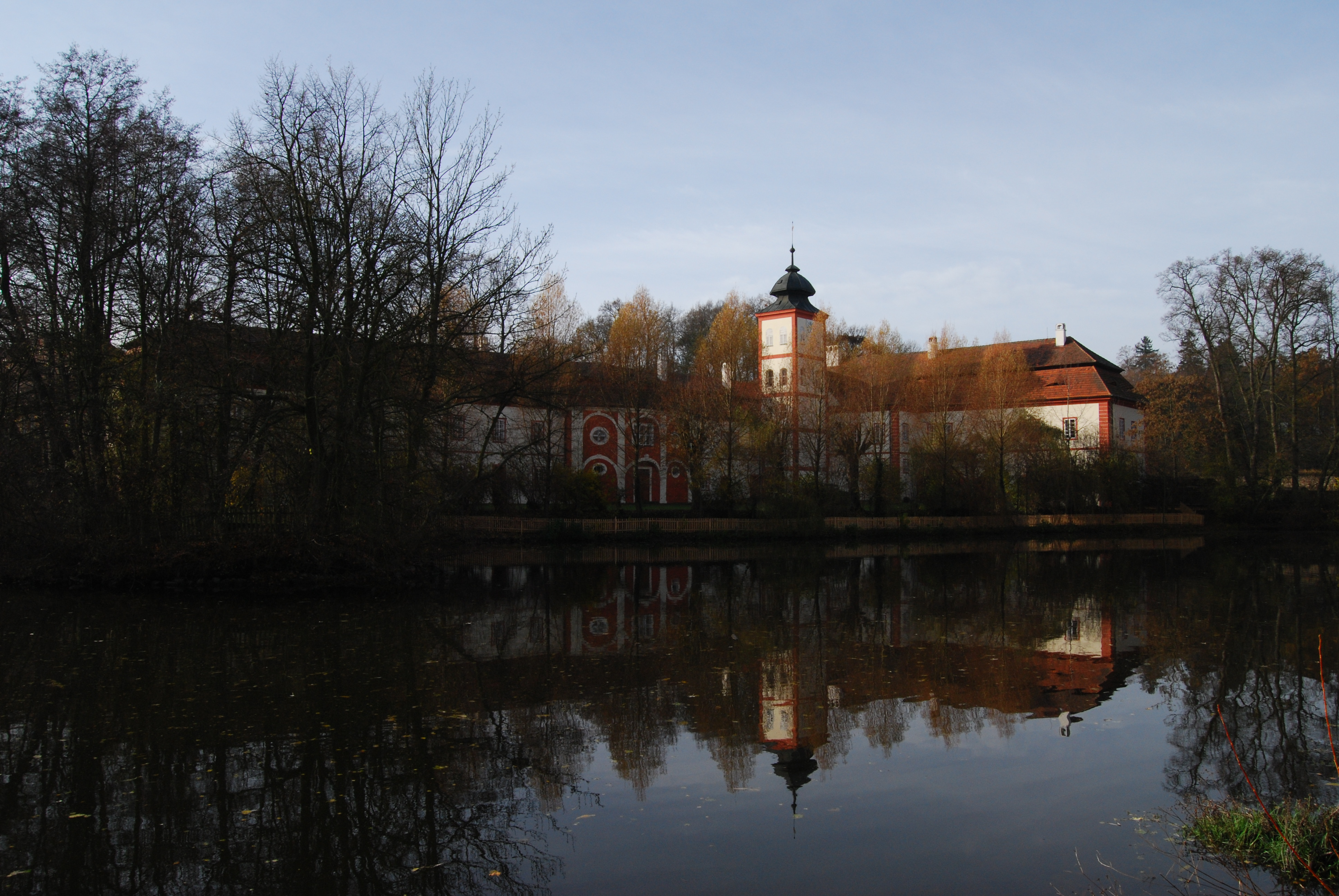 Drahenice village in Příbram District, Czech Republic. Drahenice château